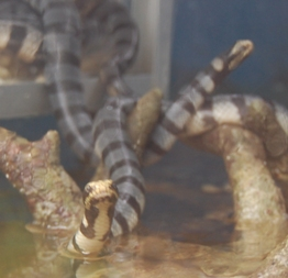 Banded sea krait @ Green connection aquarium, kota kinabalu sabah, Laticauda colubrina